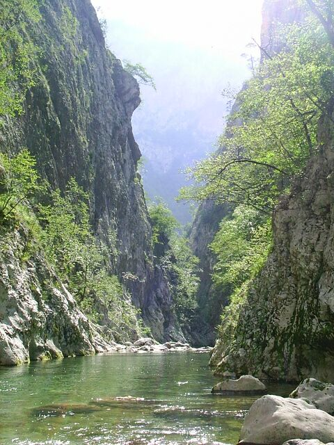 Rakitnica River and its valley, Bosnia and Herzegovina